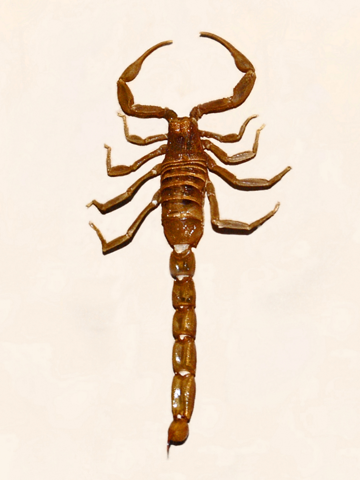 Hottentotta tamulus from India. Museum specimen